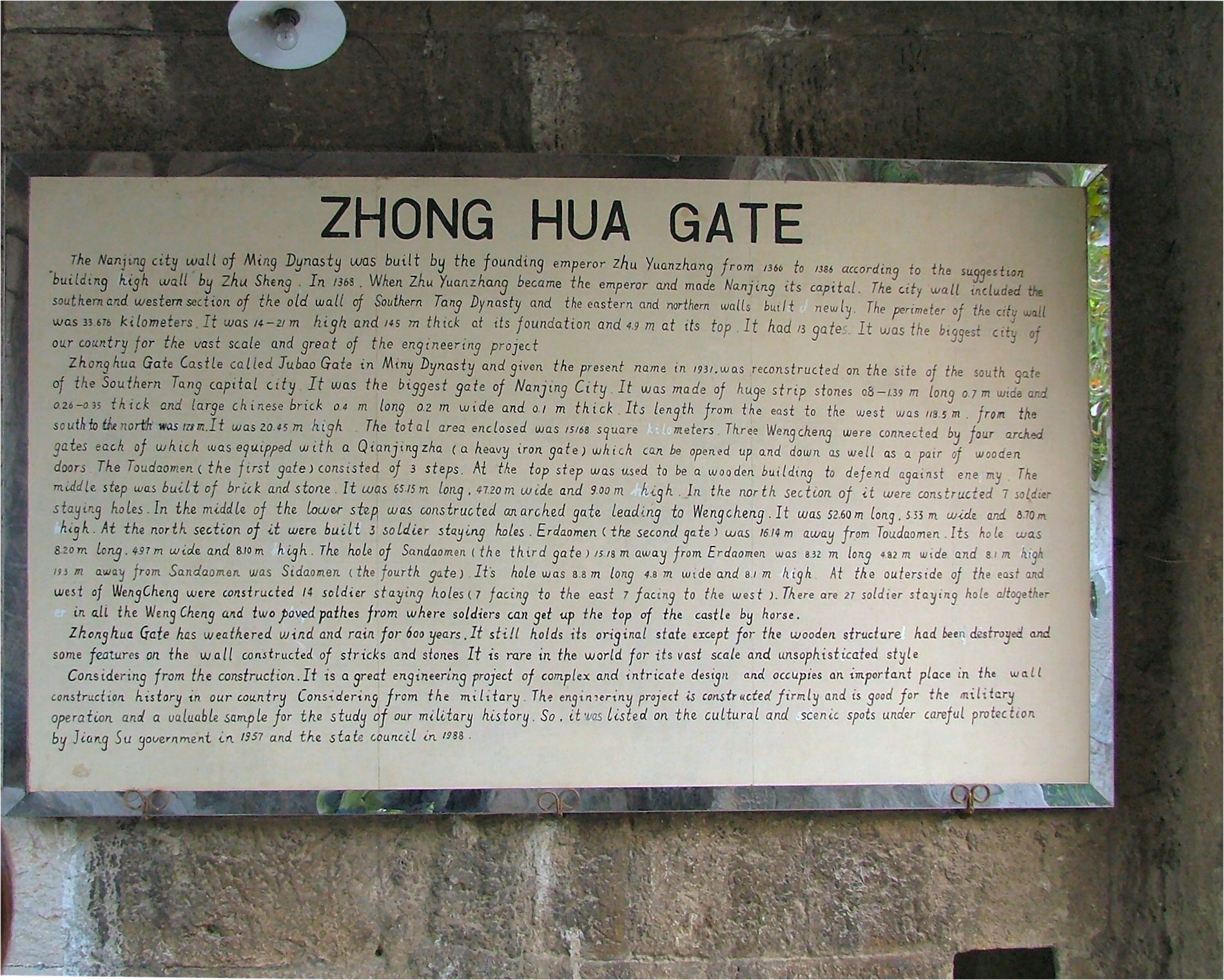 Author: Kanga35